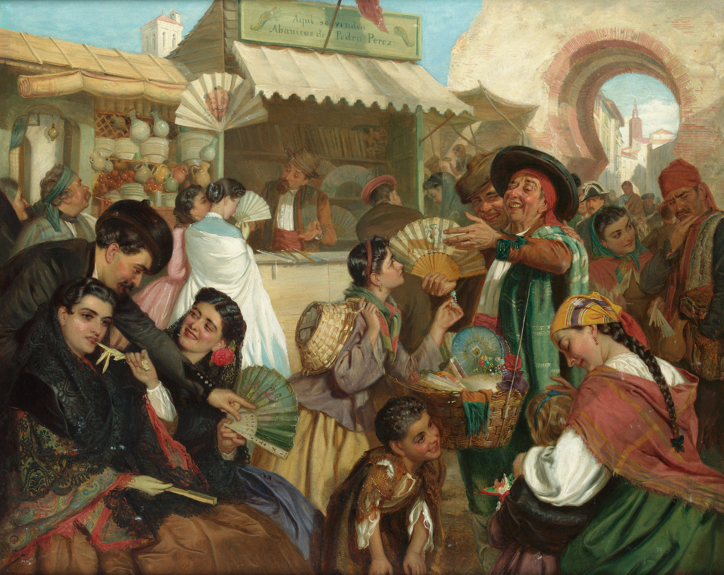 The fan seller. Signed J.B.Burgess. Oil on canvas, 58 x 71.5 cm